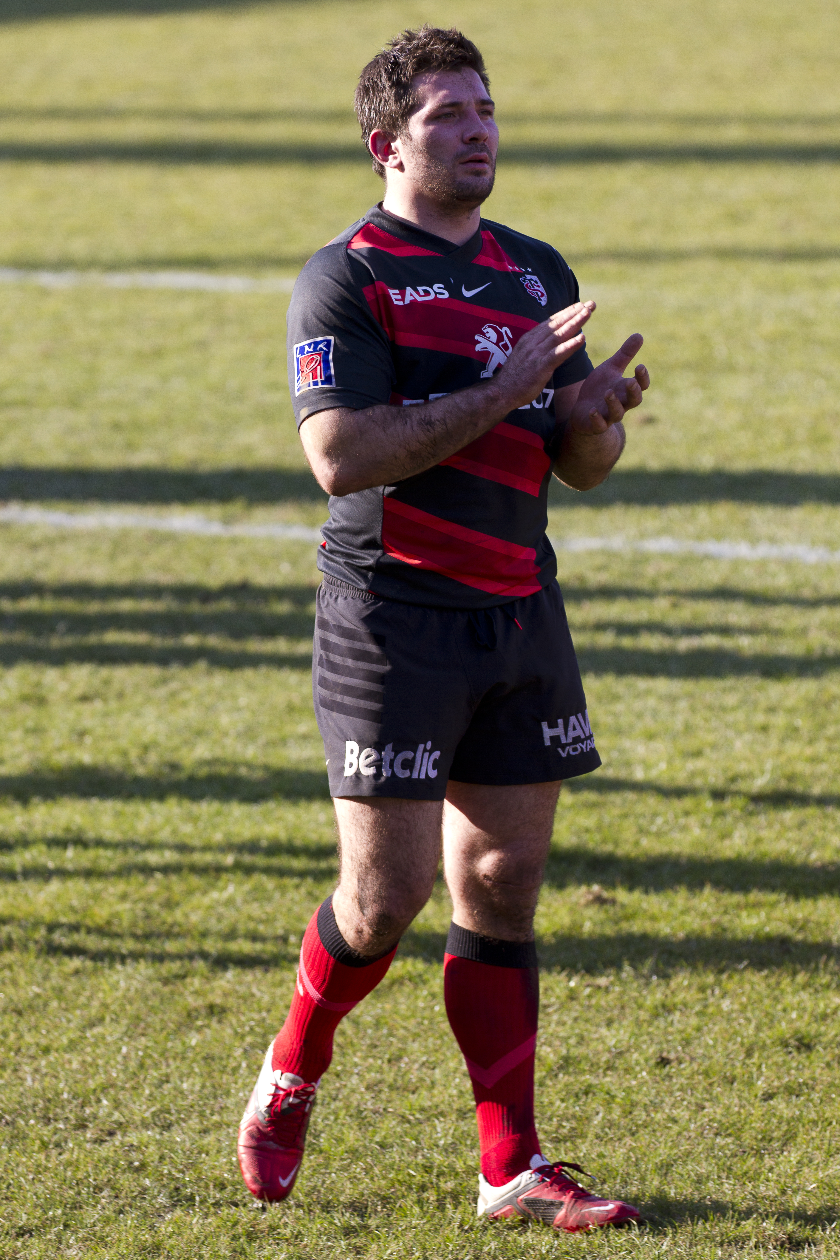 Top 14 — 18 February 2012, Stade Ernest-Wallon. Match between: Stade toulousain — Sporting union Agen Lot-et-Garonne